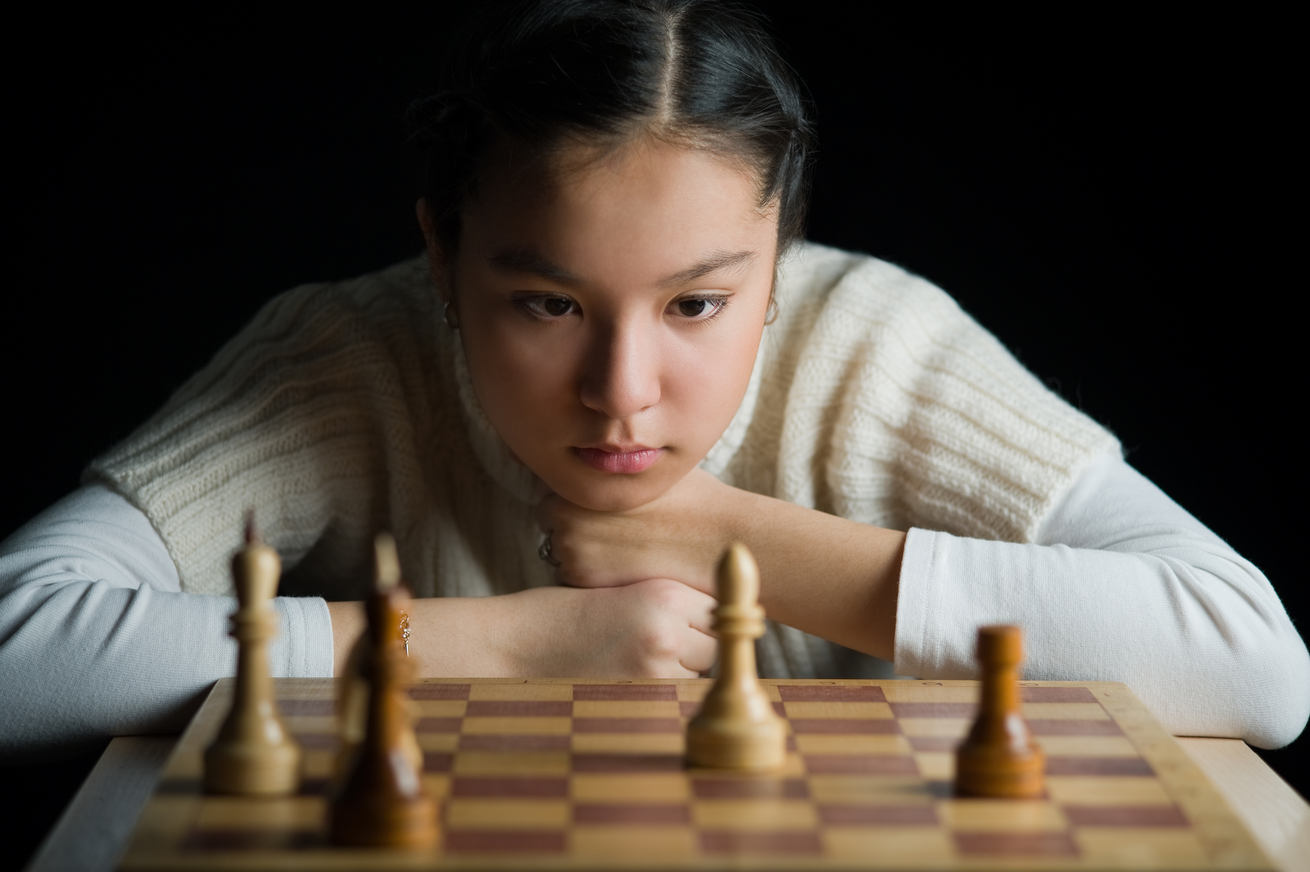 Dinara Saduakassova